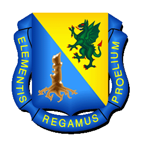 Crest of the U.S. Army Chemical School